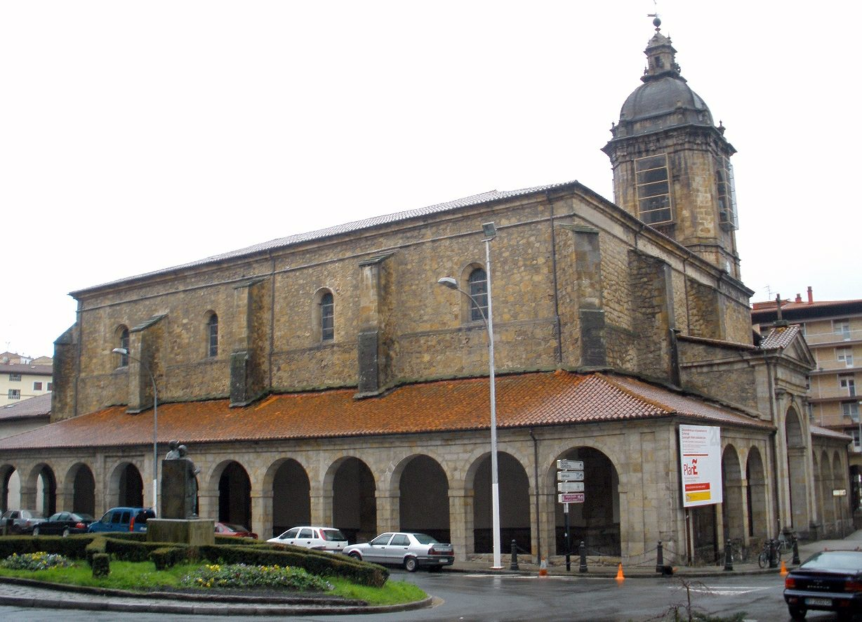 Iglesia parroquial de Santa María de la Asunción, en Zumárraga (Guipúzcoa, País Vasco, España)